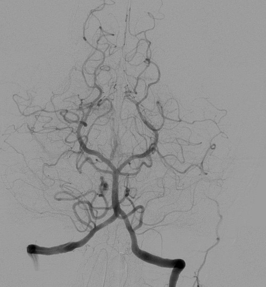 Cerebral angiography, injection in the left vertebral artery, with retrograde flow in the contralateral vertebral artery, the basilar artery and the posterior communicating artery. The posterior cerebral circulation can be seen, including the posterior part of the Circle of Willis.